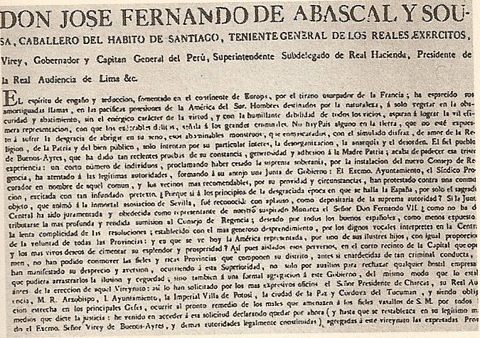 Command of viceroy Abascal to ignore the First Junta that took power in Buenos Aires after the May Revolution